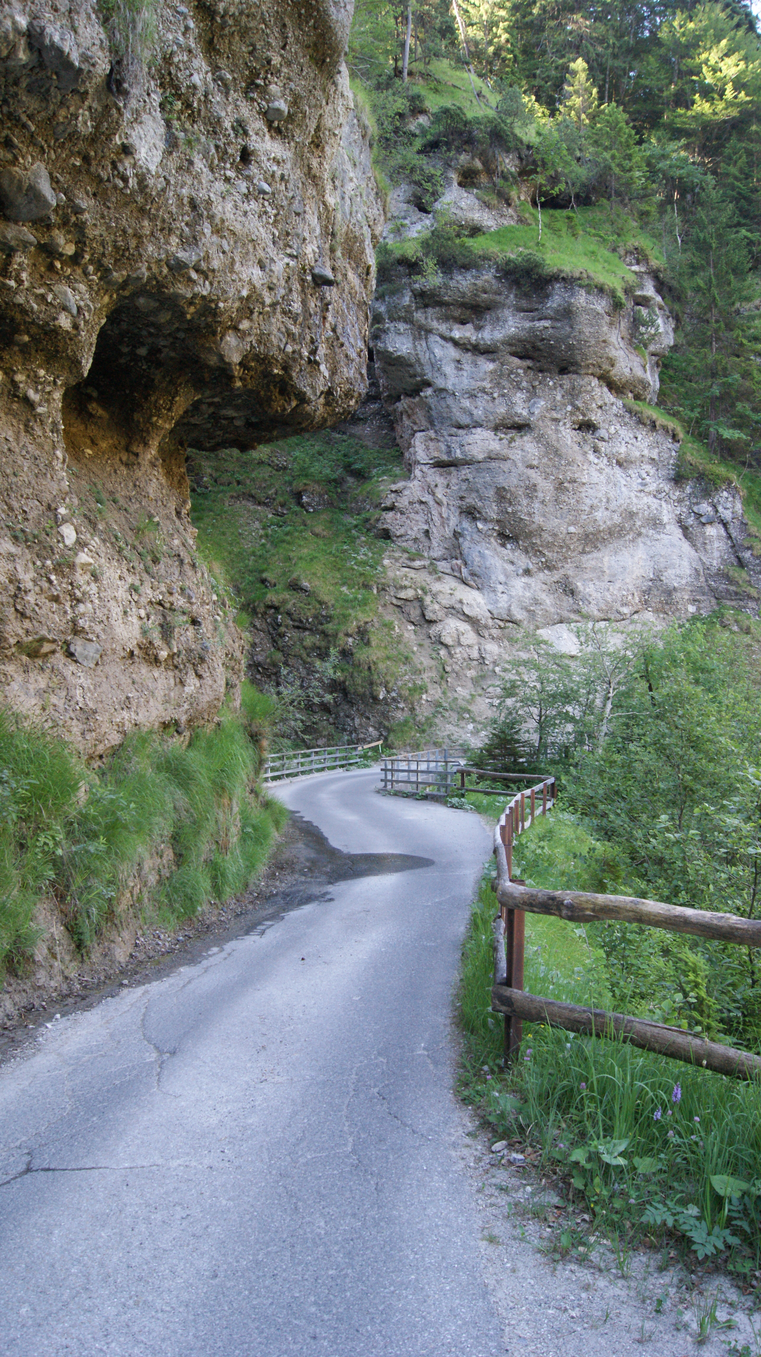 The Gamperdonaweg is a street in the muncipality of Nenzing between the main town (Nenzing) and the district Nenzinger Himmel (Gamperdona Alpe) in Vorarlberg, Austria. The street is only accessible for authorized persons and partially only single lane. There is a ban on bicycles. Next to the Gamperdonaweg runs the Mengschlucht (canyon) with the river “Meng”. Plot: Hochbruck.